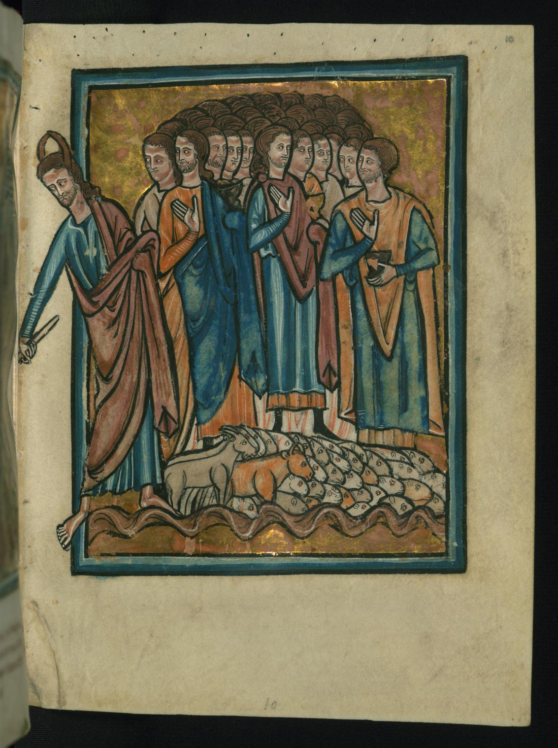 This page from Walters manuscripts W.106 depicts a scene from Exodus, in which the Israelites escape their bondage in Egypt. After God sent many plagues, the Pharaoh at last agreed to let the Israelites leave, but then changed his mind and pursued them. The Israelites crossed over the Red Sea, after God had made all the sea dry land. In this image, Moses used Gods power to allow the waters to return, drowning Pharaoh's army.